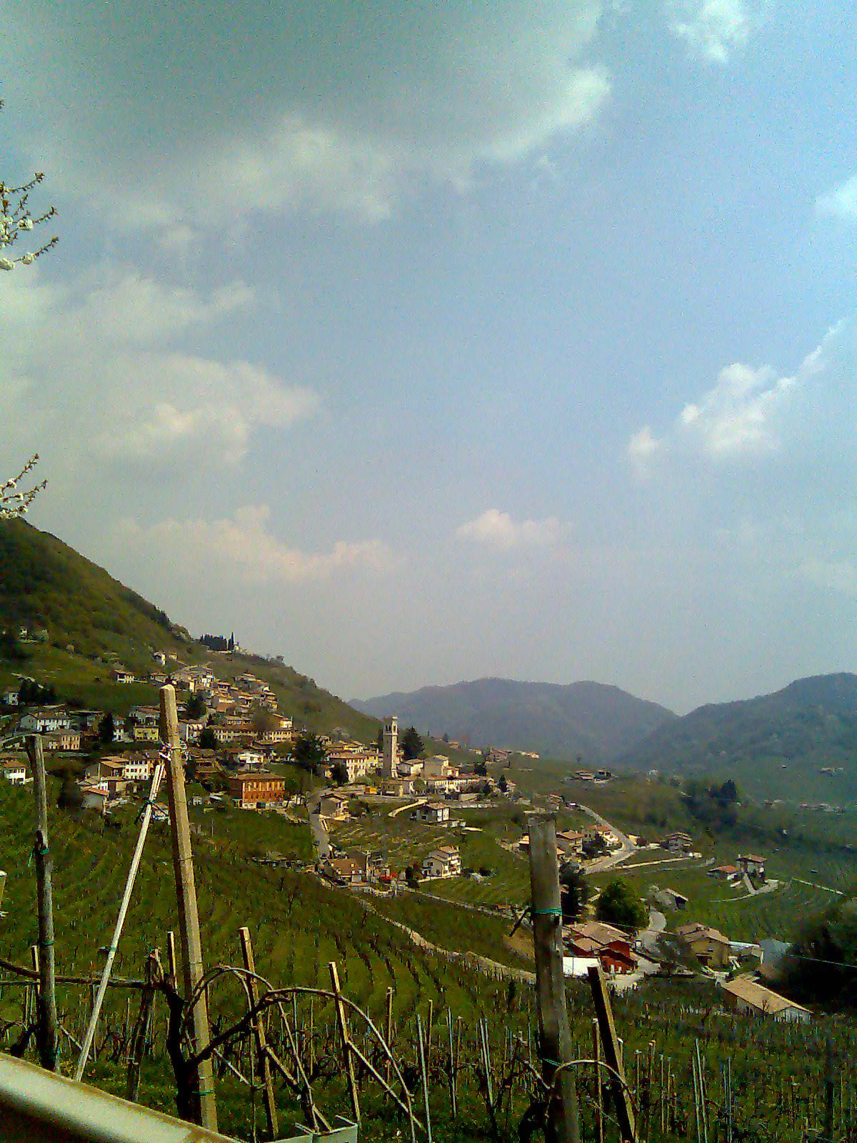 Hillside View of Valdobbiadene (town of Santo Stefano) in northern Italy